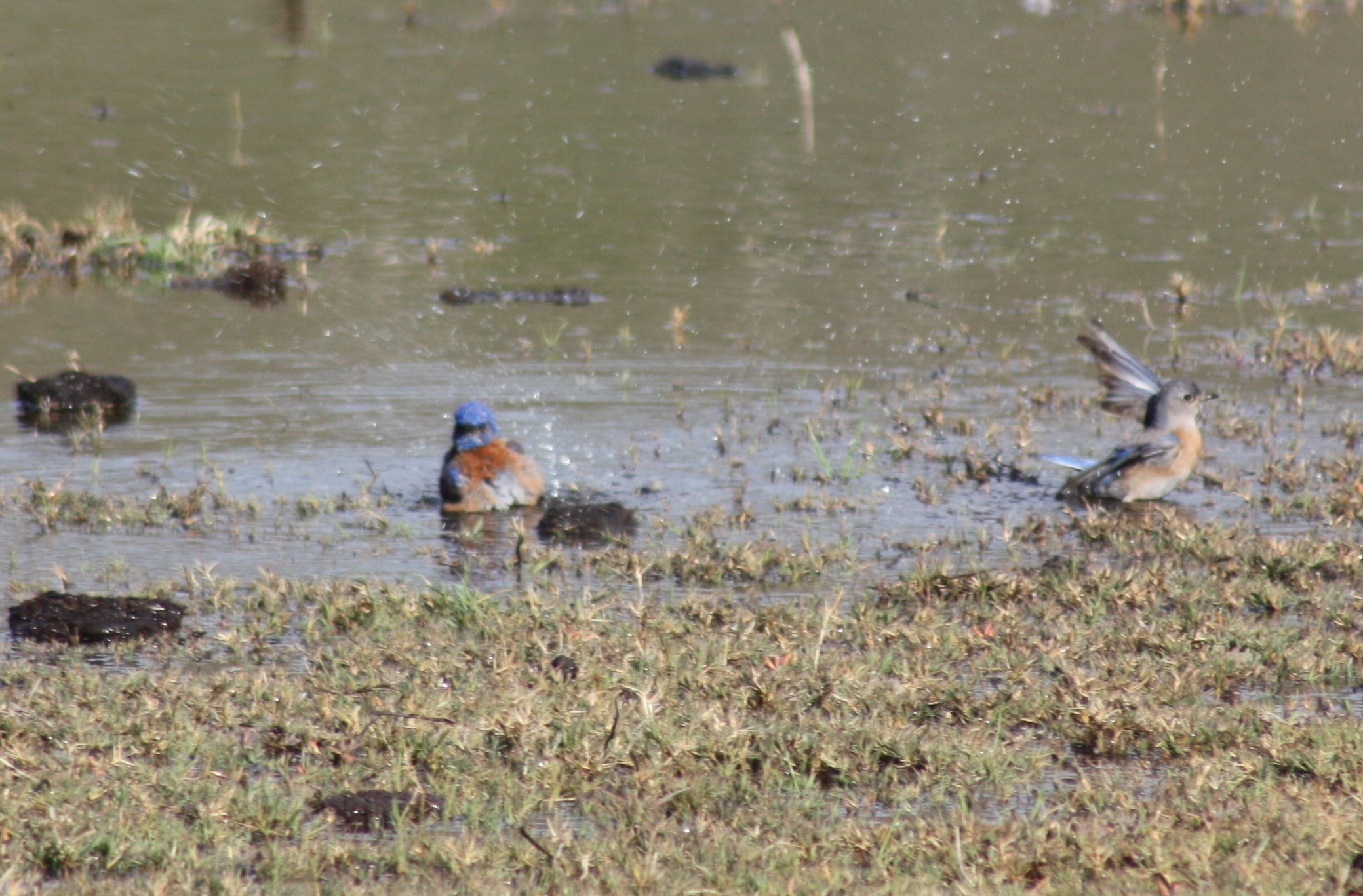 i went out in hopes of finding western bluebirds and found them at the pond on turri creek road, los osos creek wetland reserve